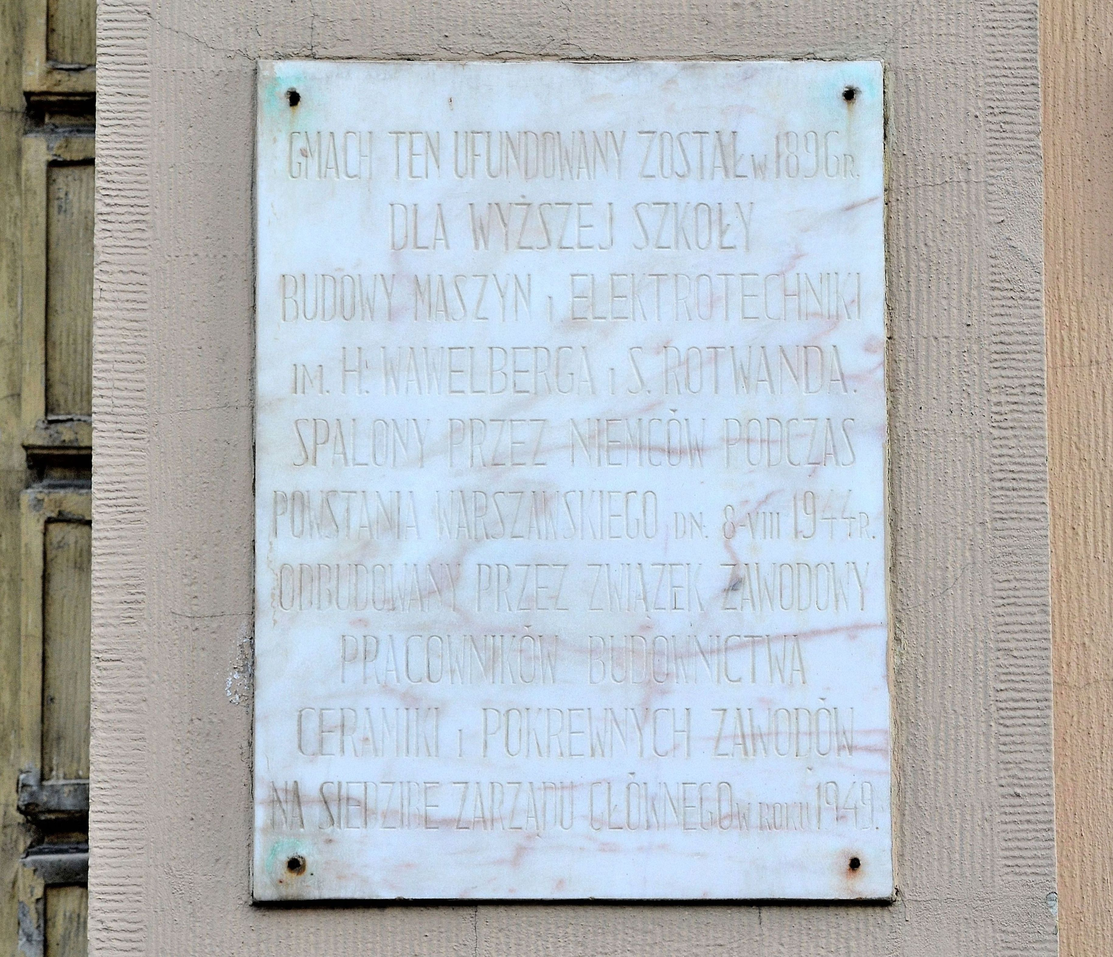 Plaque commemorating Wawelberg and Rotwand Technical School at 4/6 Mokotowska Street in Warsaw